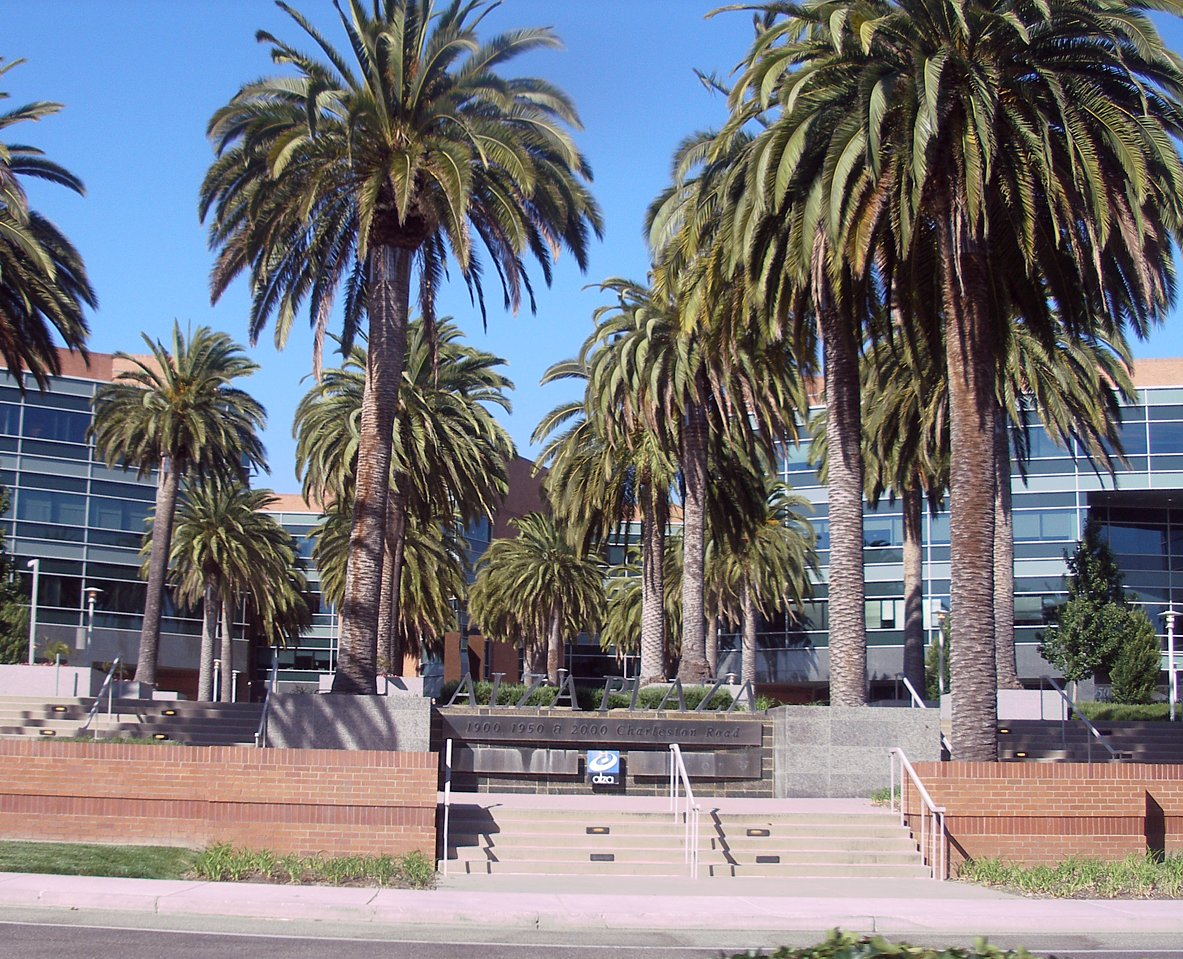 Alza Plaza in Mountain View (next to the Googleplex). Google now owns these buildings.